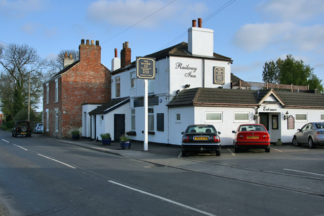 The Railway Inn, New Ellerby, East Riding of Yorkshire, England.A good pub is always popular, and so it is with the Railway Inn. Good food, good service, reasonable car park, and a restaurant as well as the bars. The photograph looks south across the road. Just a few metres behind the photographer is the track of the disused railway line between Hull and Hornsea, now a cycle track and part of the Hornsea to Southport Trans Pennine trail.